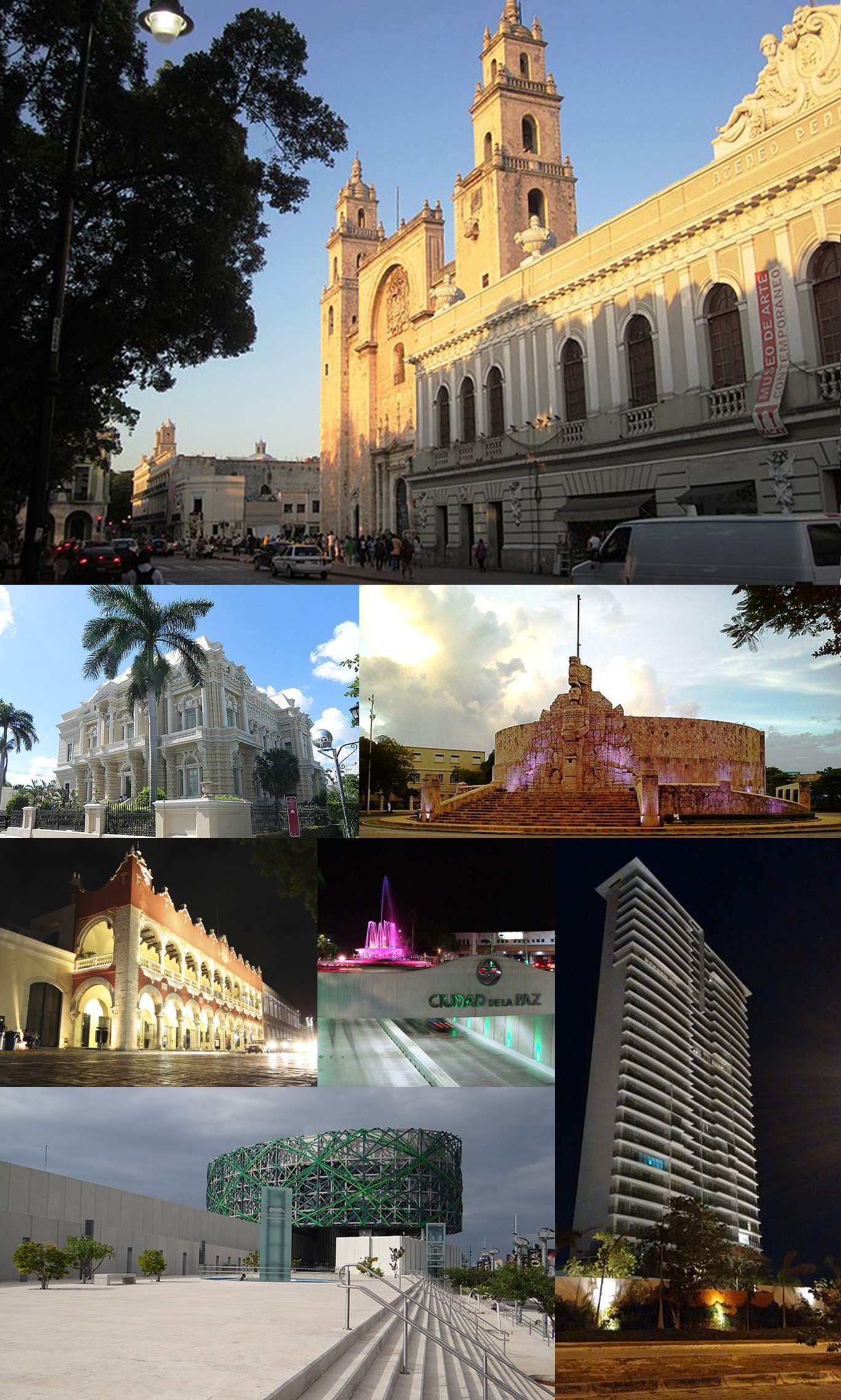 Collage of the city of Mérida.